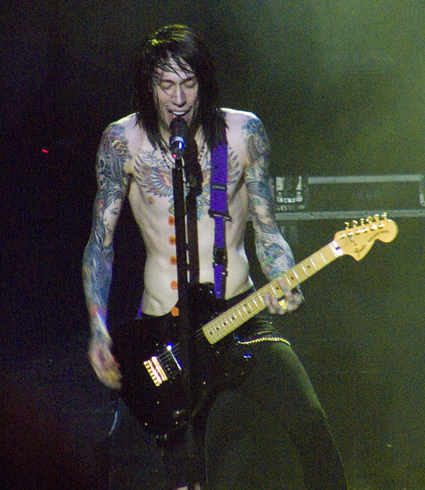 Trace Cyrus, vocalist of the band Metro Station, son of country music star Billy Ray Cyrus, brother of Hannah Montana star Miley Cyrus.